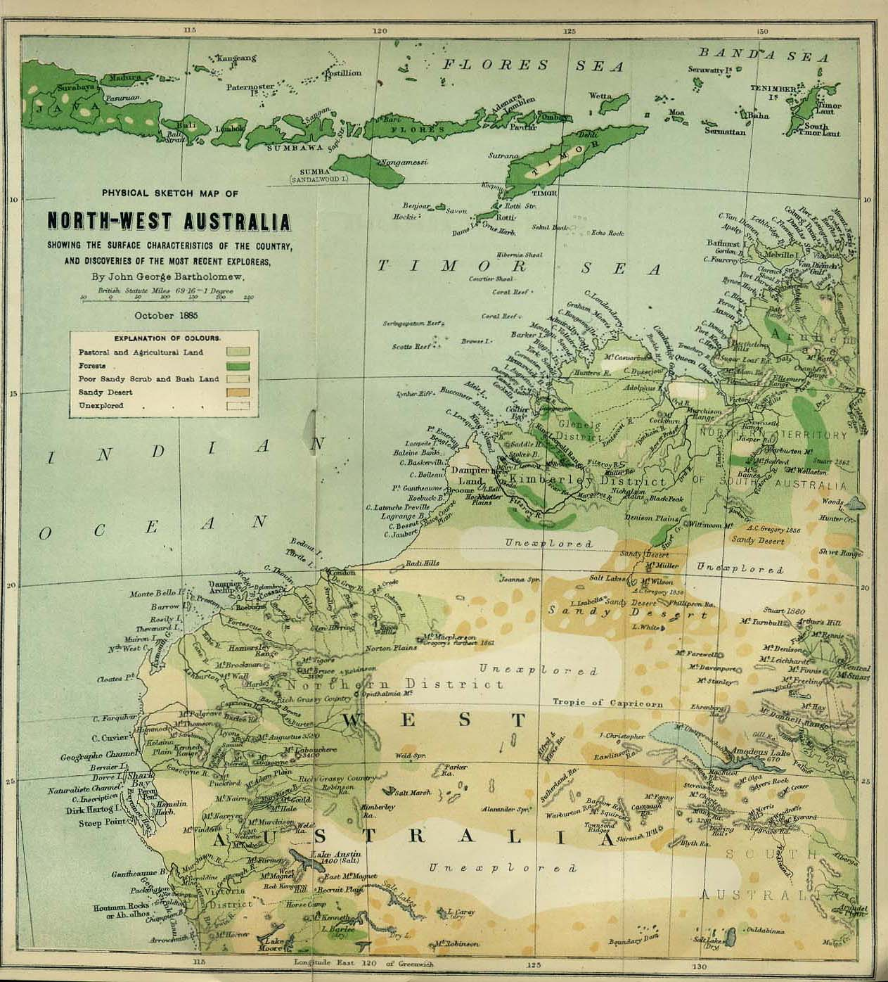 "Physical Sketch Map of Northwest Australia showing the surface characteristics of the country and discoveries of the most recent explorers." from the Scottish Geographical Magazine. Published by the Scottish Geographical Society and edited by Hugh A. Webster and Arthur Silva White. Volume I, 1885.